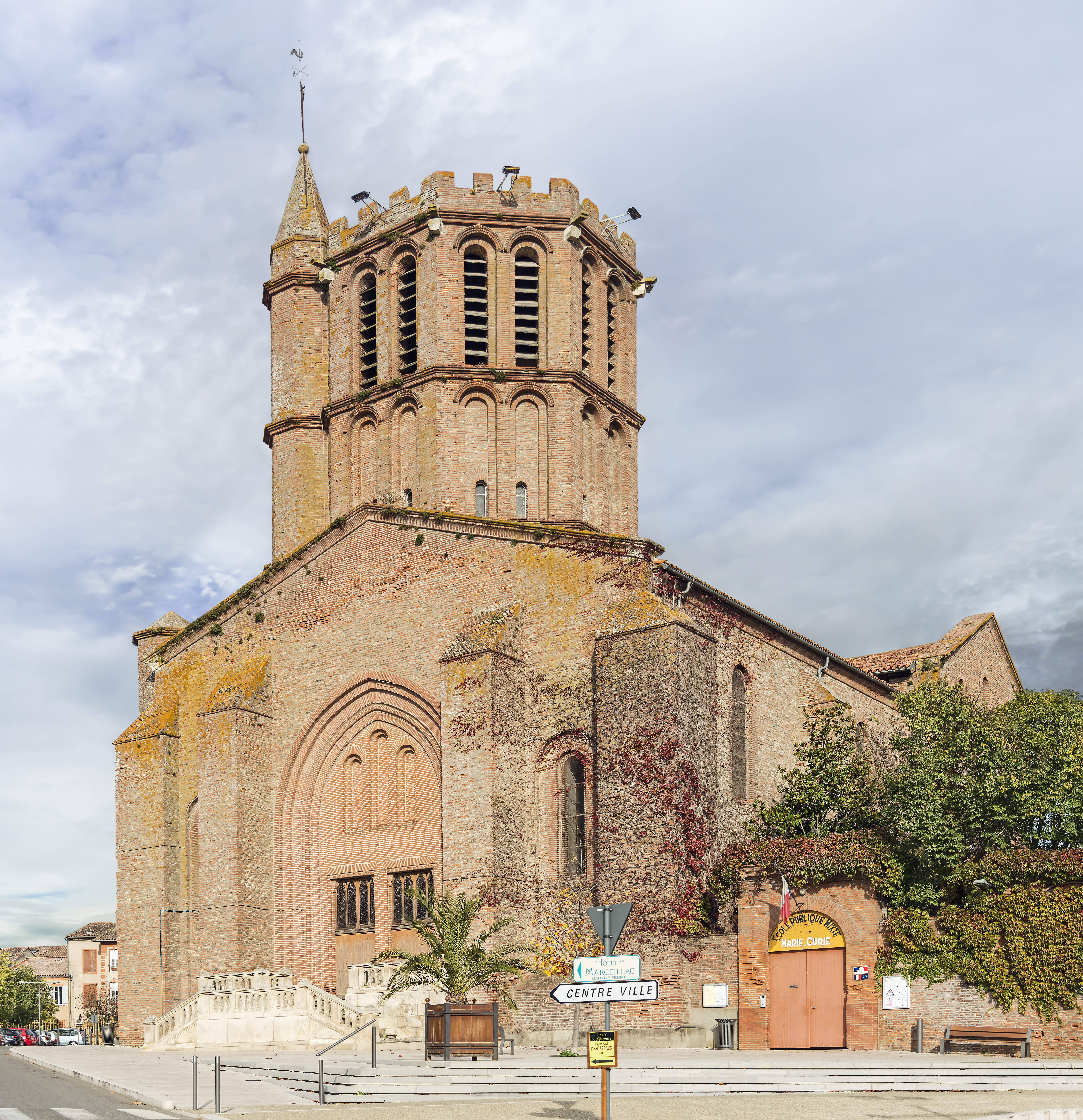 Castelsarrasin Tarn-et-Garonne, France - Église Saint-Sauveur - West Facade.